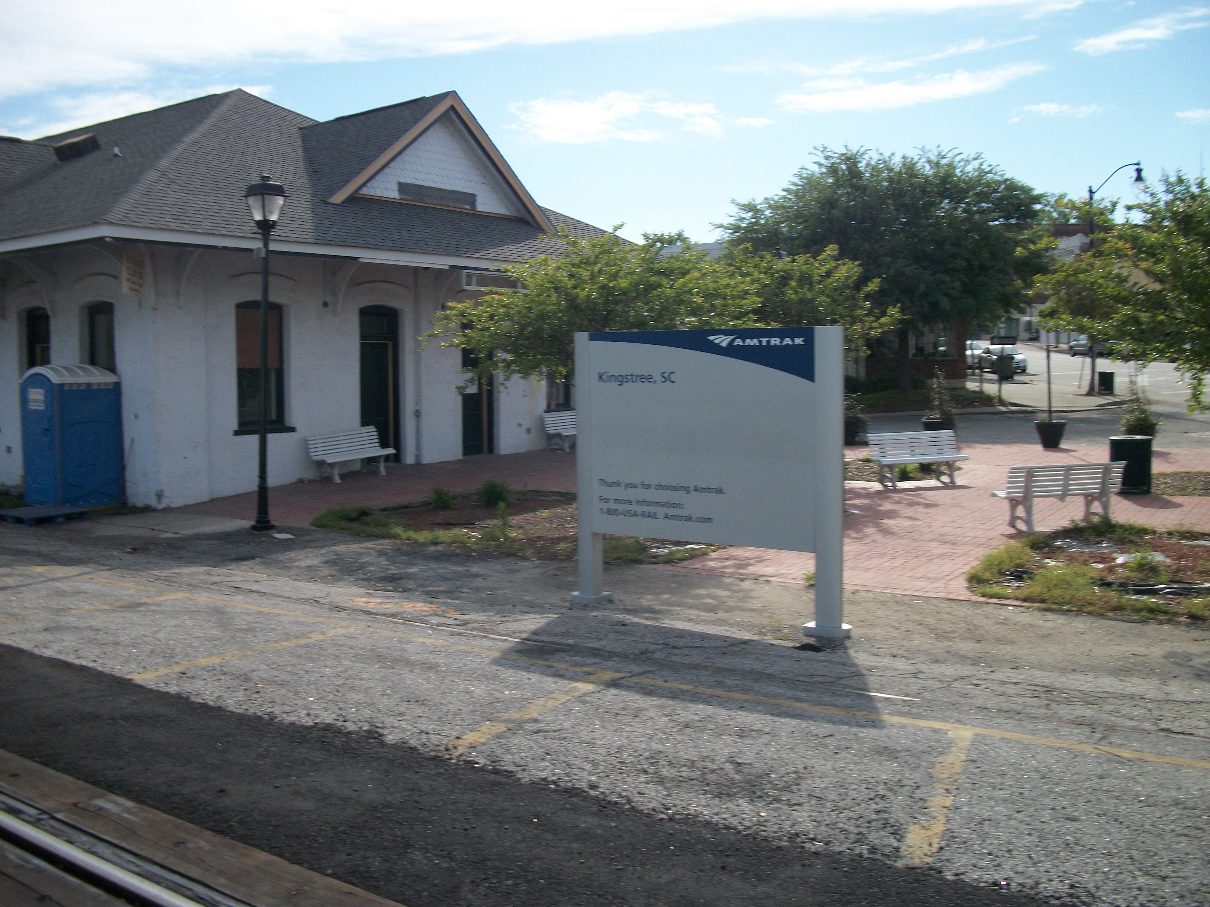 Kingstree (Amtrak station) with the newer sign along the tracks in front of the station in Kingstree, South Carolina. More images to come. The station is in the process of being rebuilt as of the uploading of this file, compared to Yemassee (Amtrak station), which is being torn down and replaced.